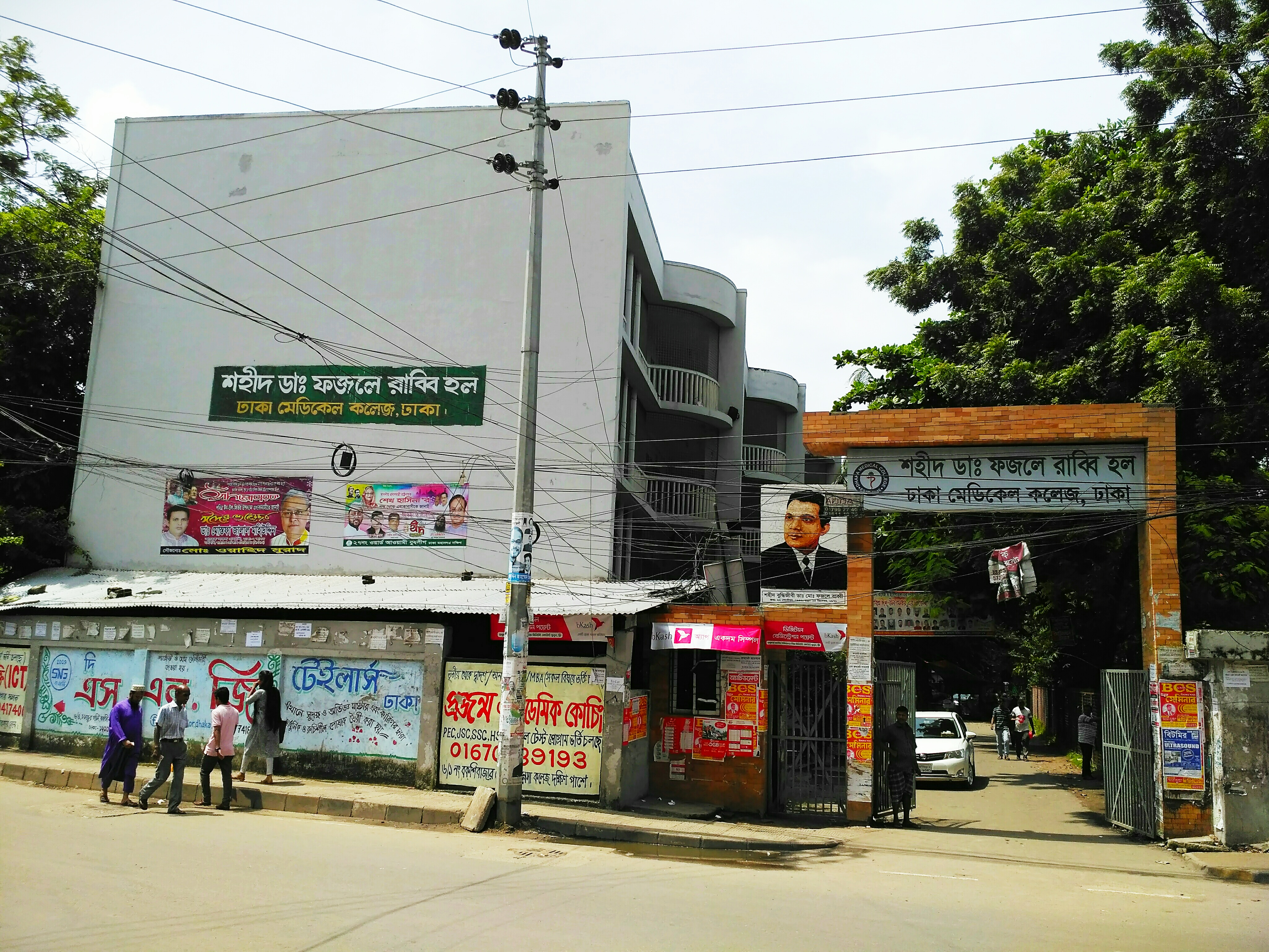 Shaheed Dr. Fazle Rabbi Hall, Dhaka Medical College, Dhaka. ( 10.09.2019)